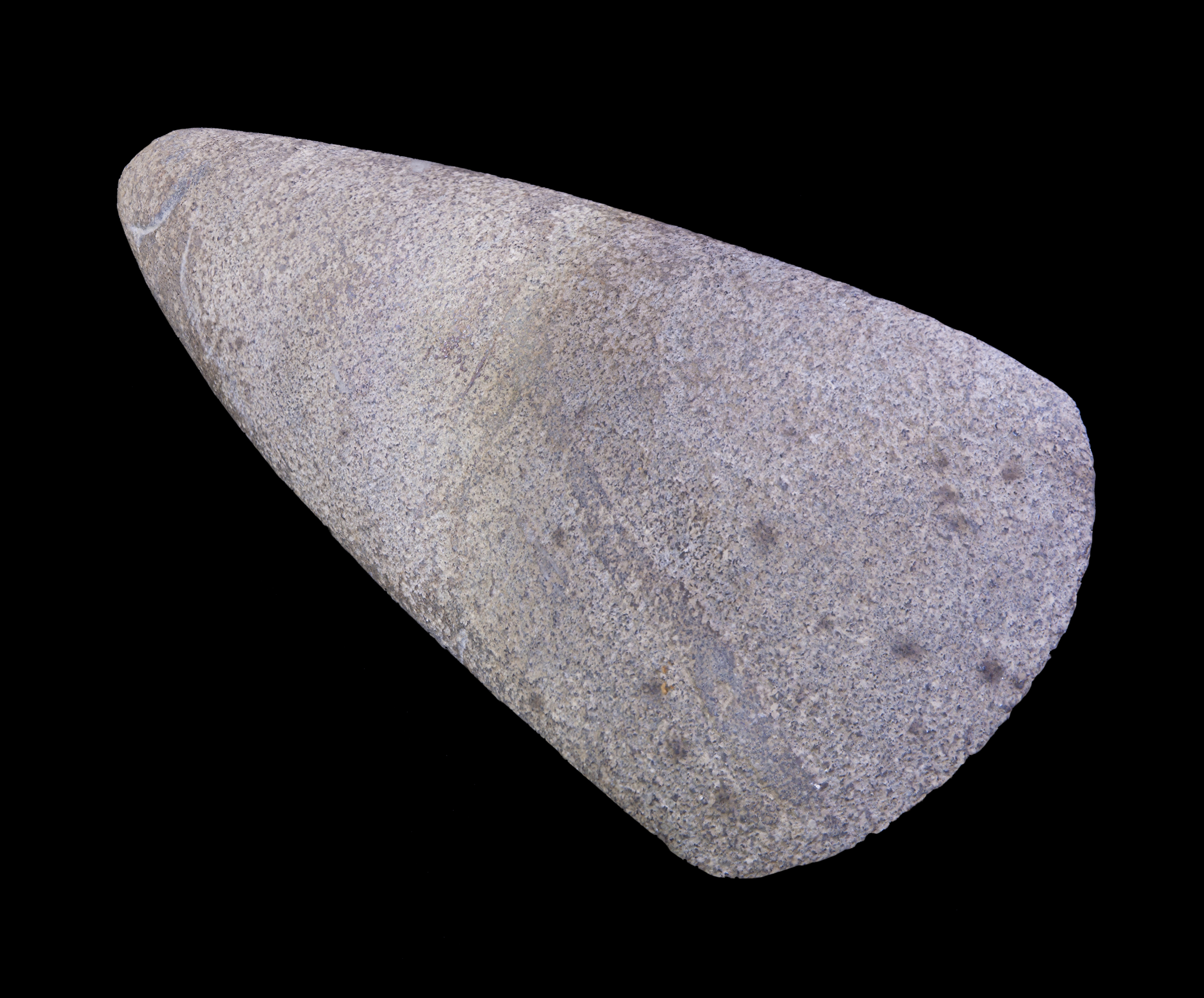 Polished ax